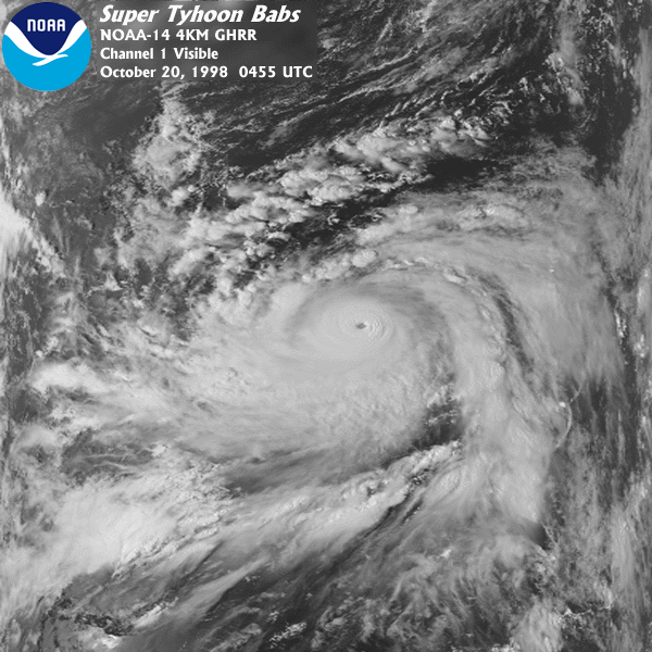 Satellite image of Super Typhoon Babs on October 20 at 0455 UTC.